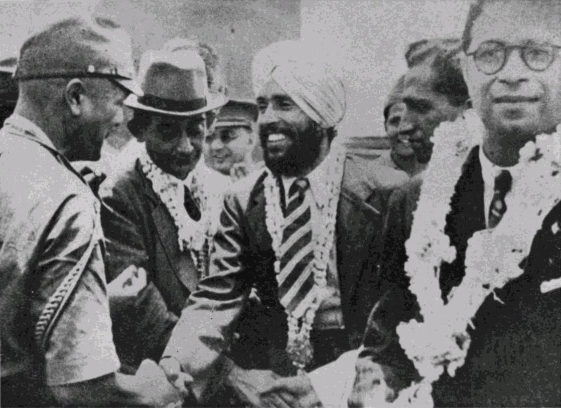 Major Fujiwara Iwaichi of F Kikan greets Captain Giani Pritam Singh of the Indian National Army